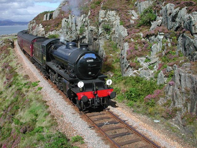 The Jacobite